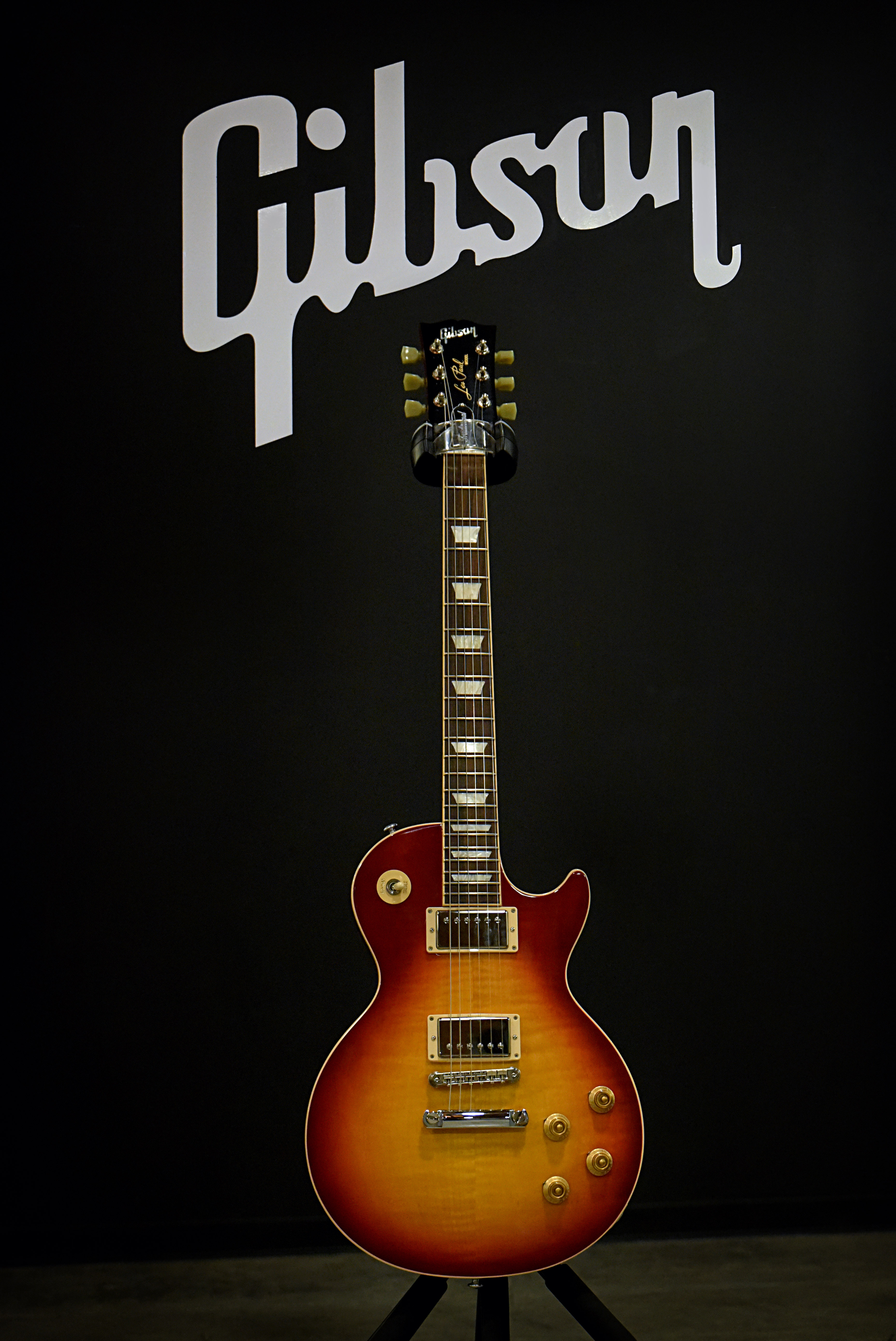 Gibson Logo and their signature Les Paul Guitar shot at the Gibson Showroom in Beverly Hills California on May 12, 2018 - Photo by Glenn Francis of